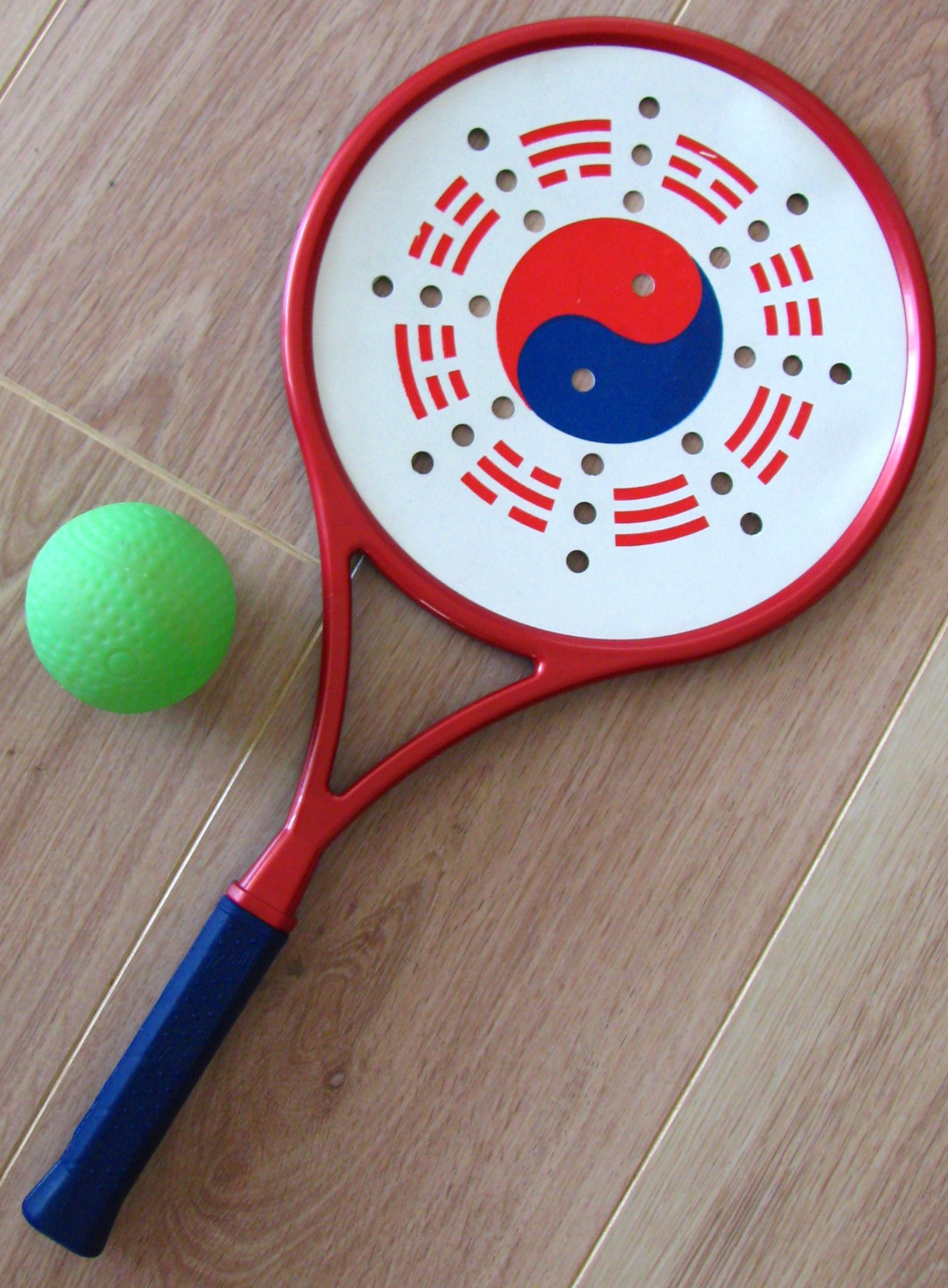 Picture of Tai Chi Softball and Racket